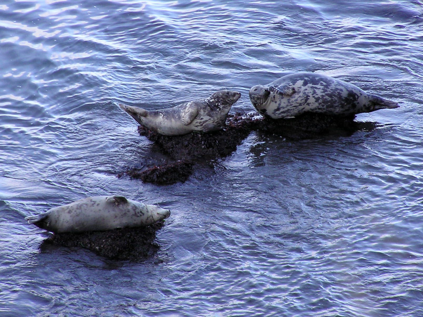 Grey seals at Rhossili on the Gower Peninsula, South Wales.